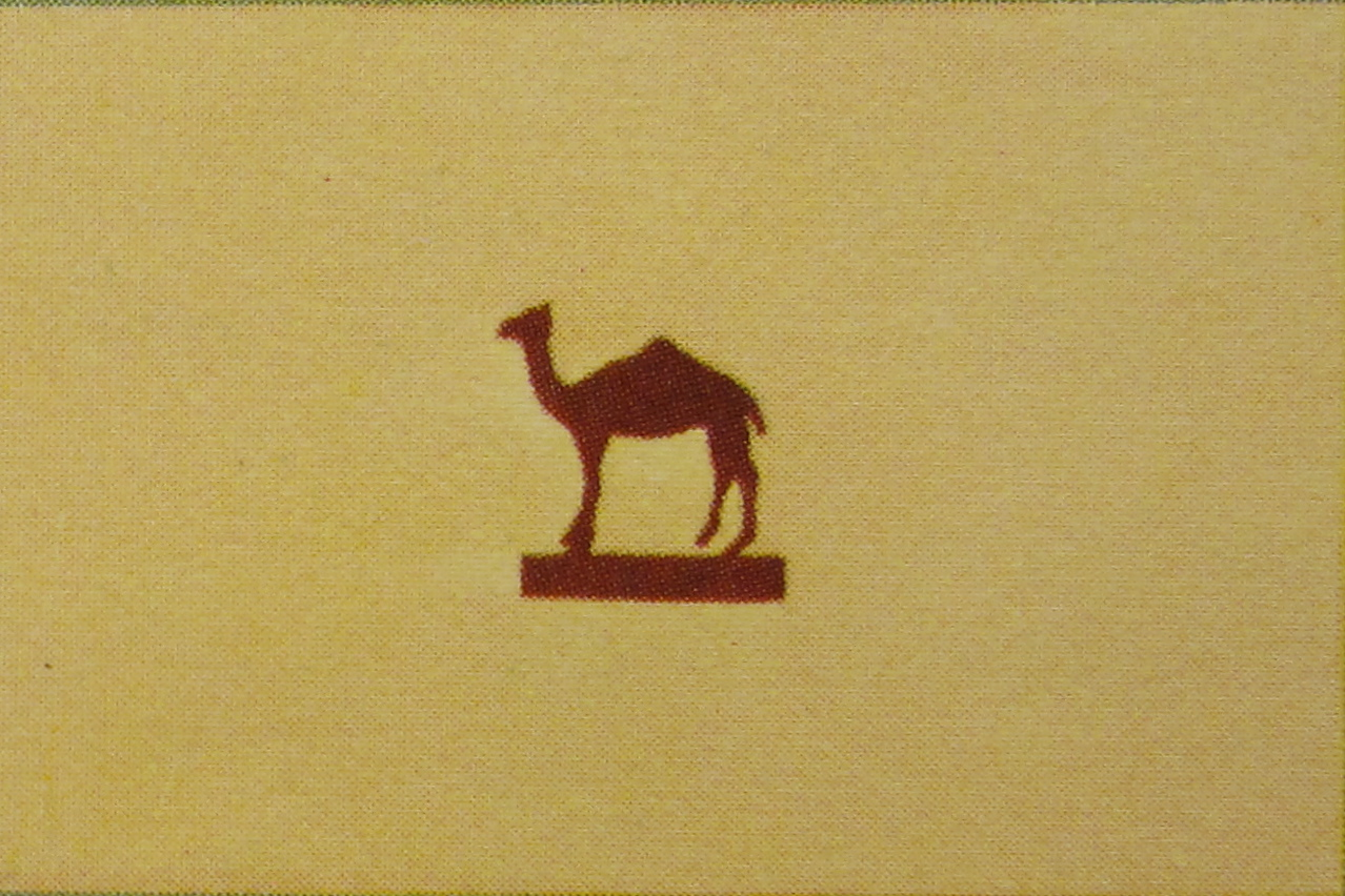 Flag of Northern Kordofan